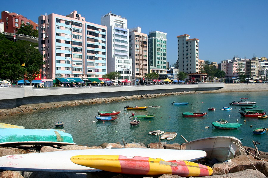 Waterfront at Stanley